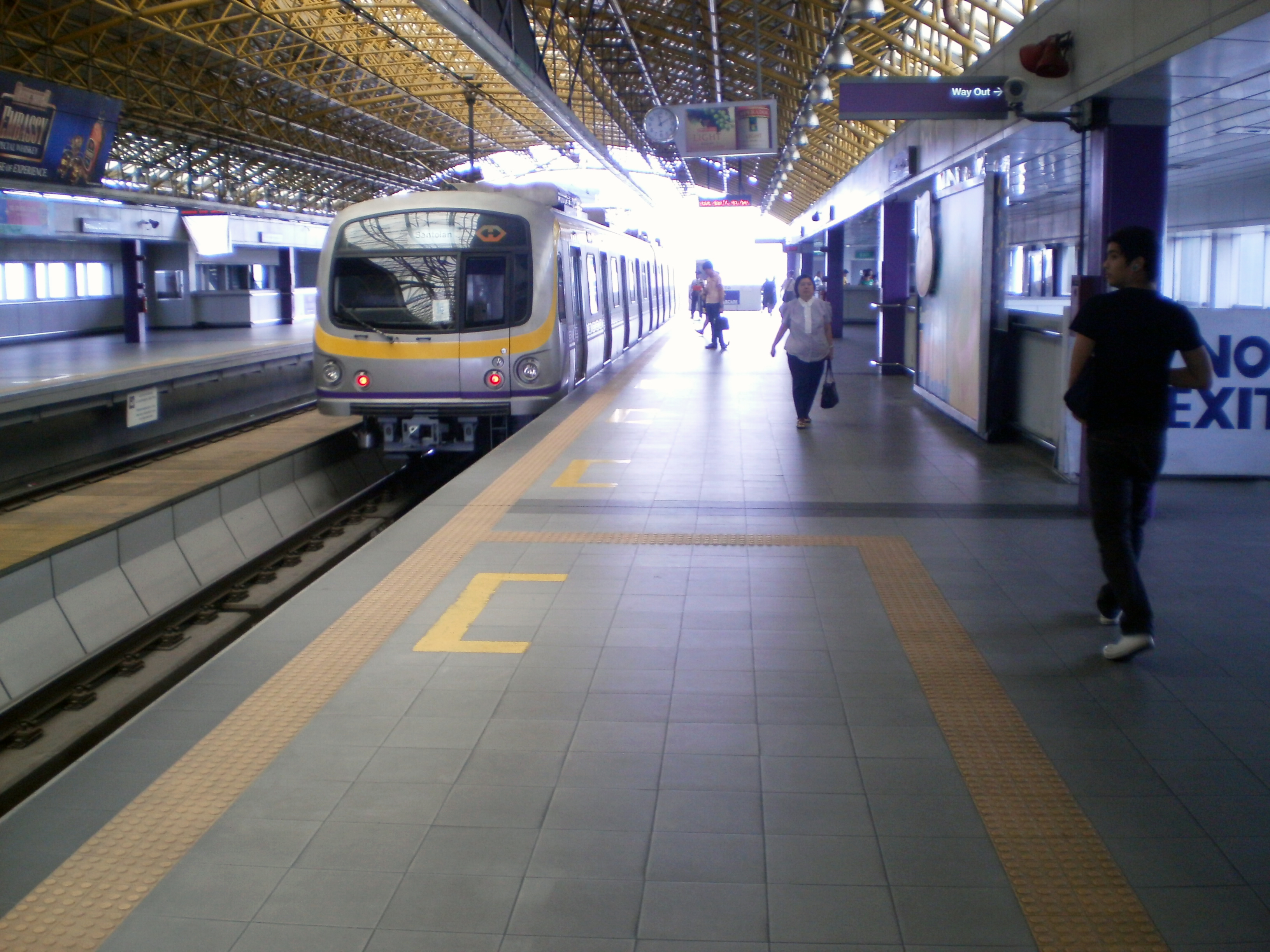 Platform 2 area of Araneta Center-Cubao station